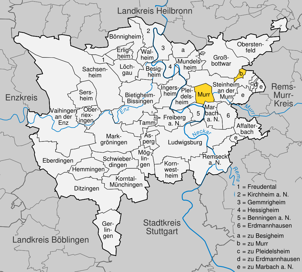 position of Murr within distict of Ludwigsburg, Baden-Württemberg, Germany